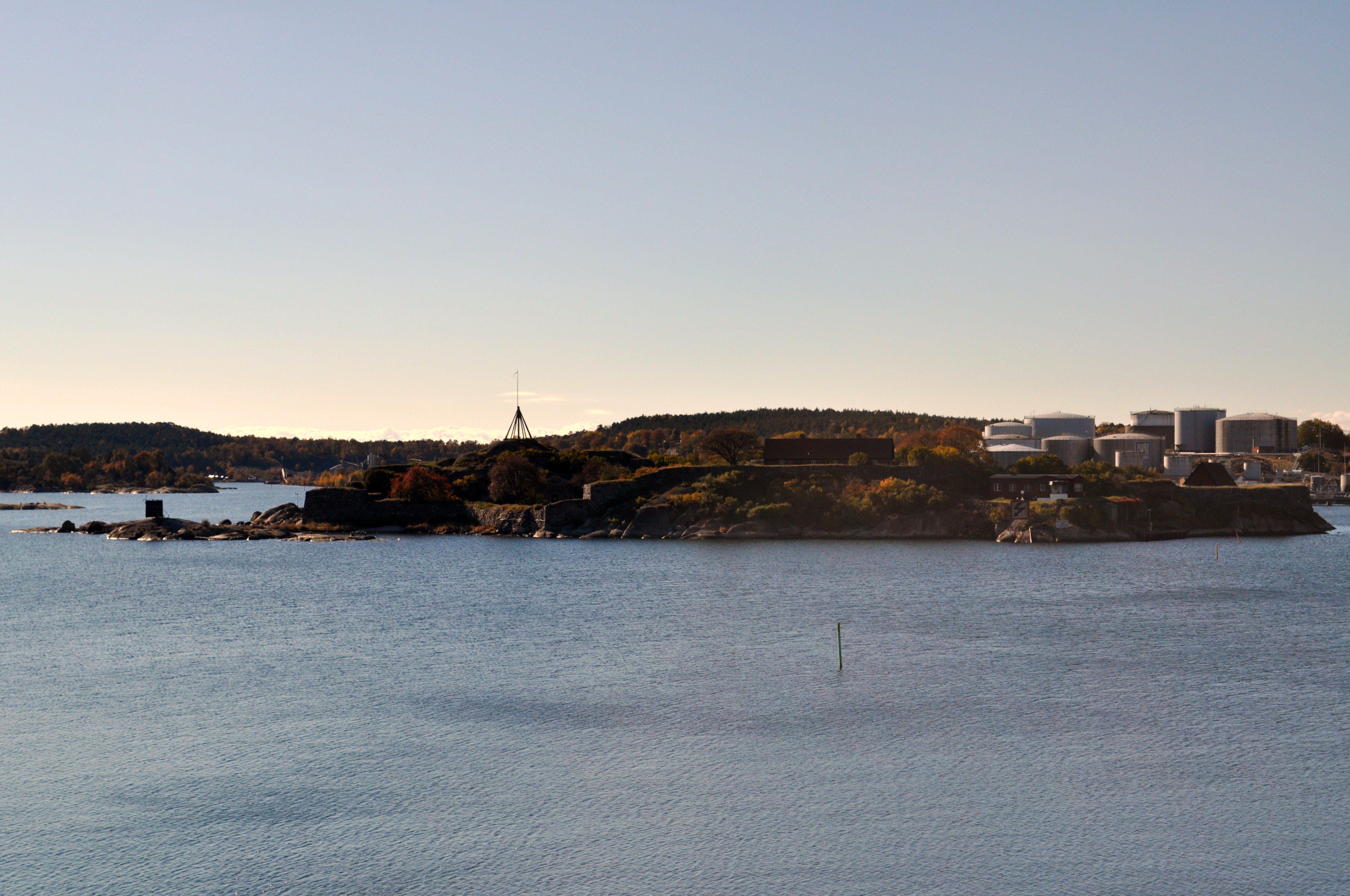 Karlshamn fort outside the harbour, view from south west from the place the old fort on Boön - Karlshamns Kastell, sett från platsen för det äldre kastellet på Boön